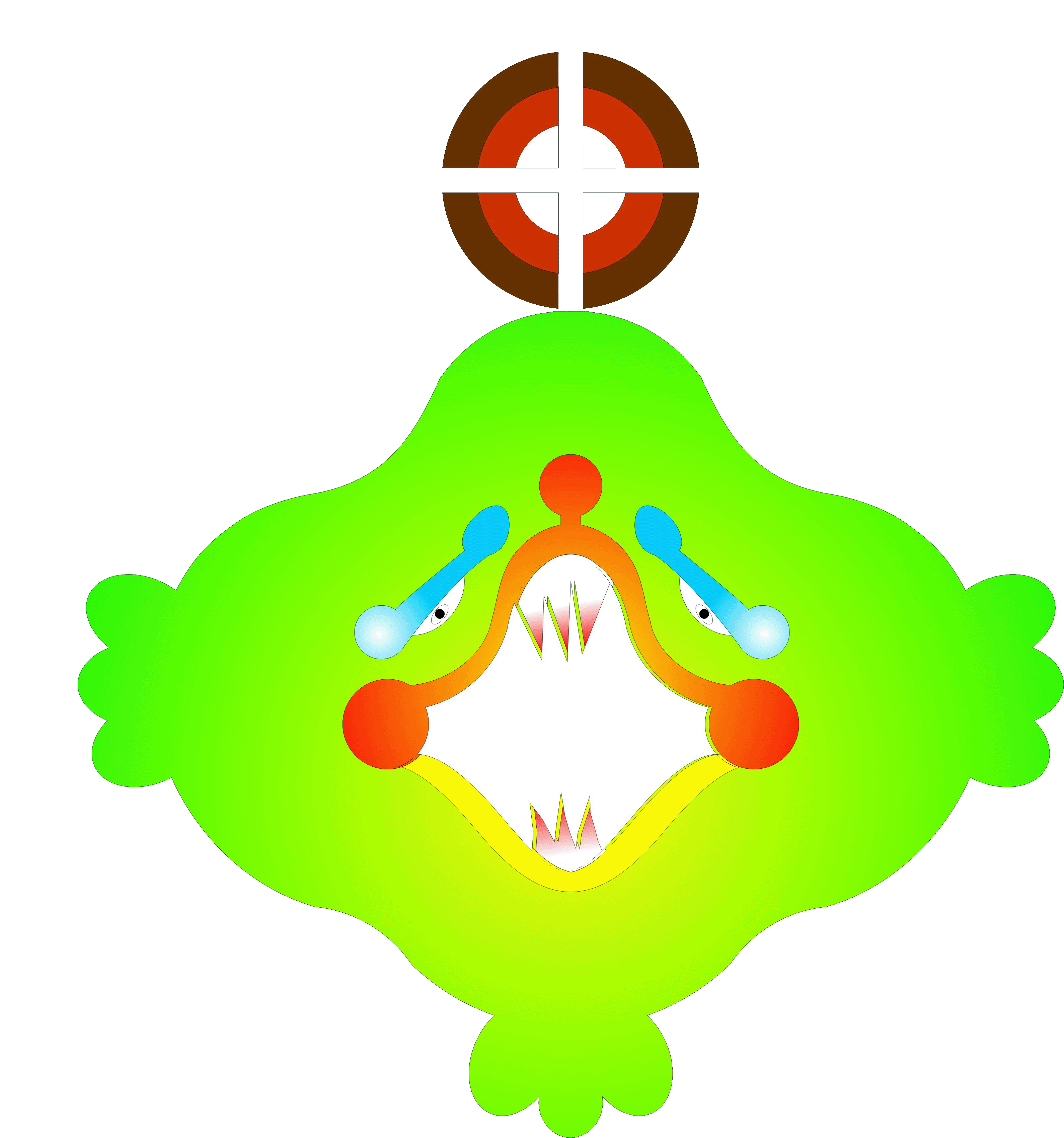 SHIELD IS THE POPULATION OF SAN PABLO OZTOTEPEC, MILPA ALTA D.F.